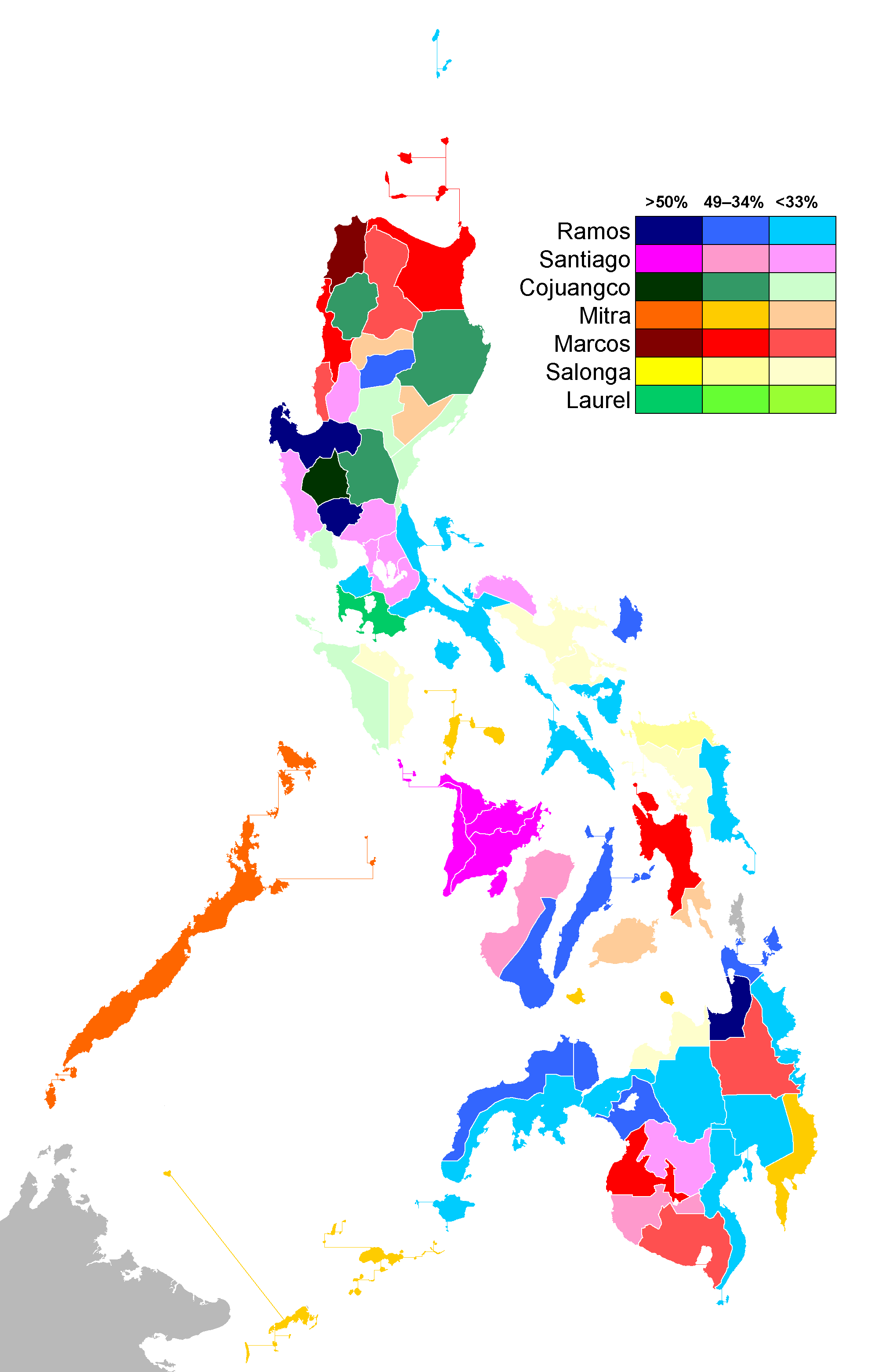 Percentages won by candidates in the 1992 Philippine presidential election.